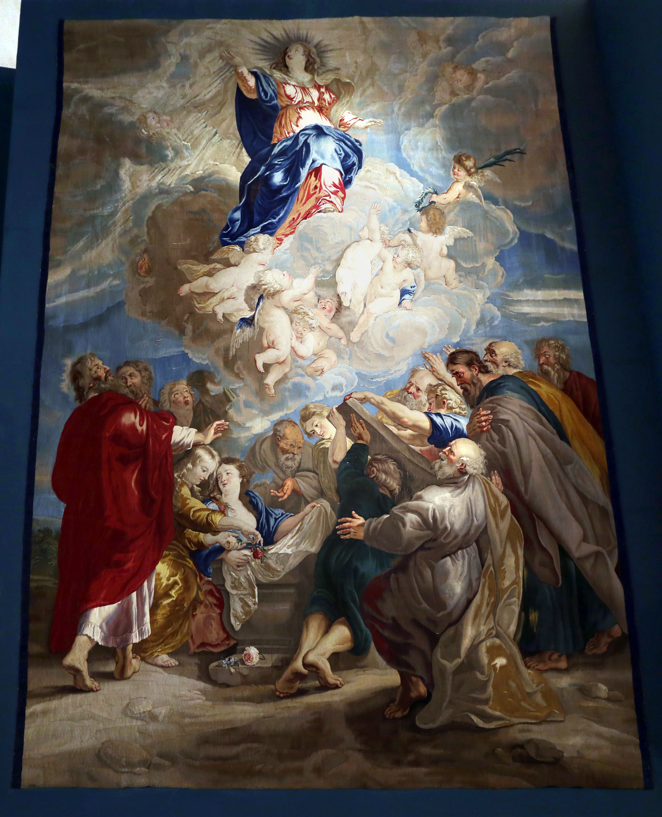 Misericordia exhibition in Senigalllia (2016)